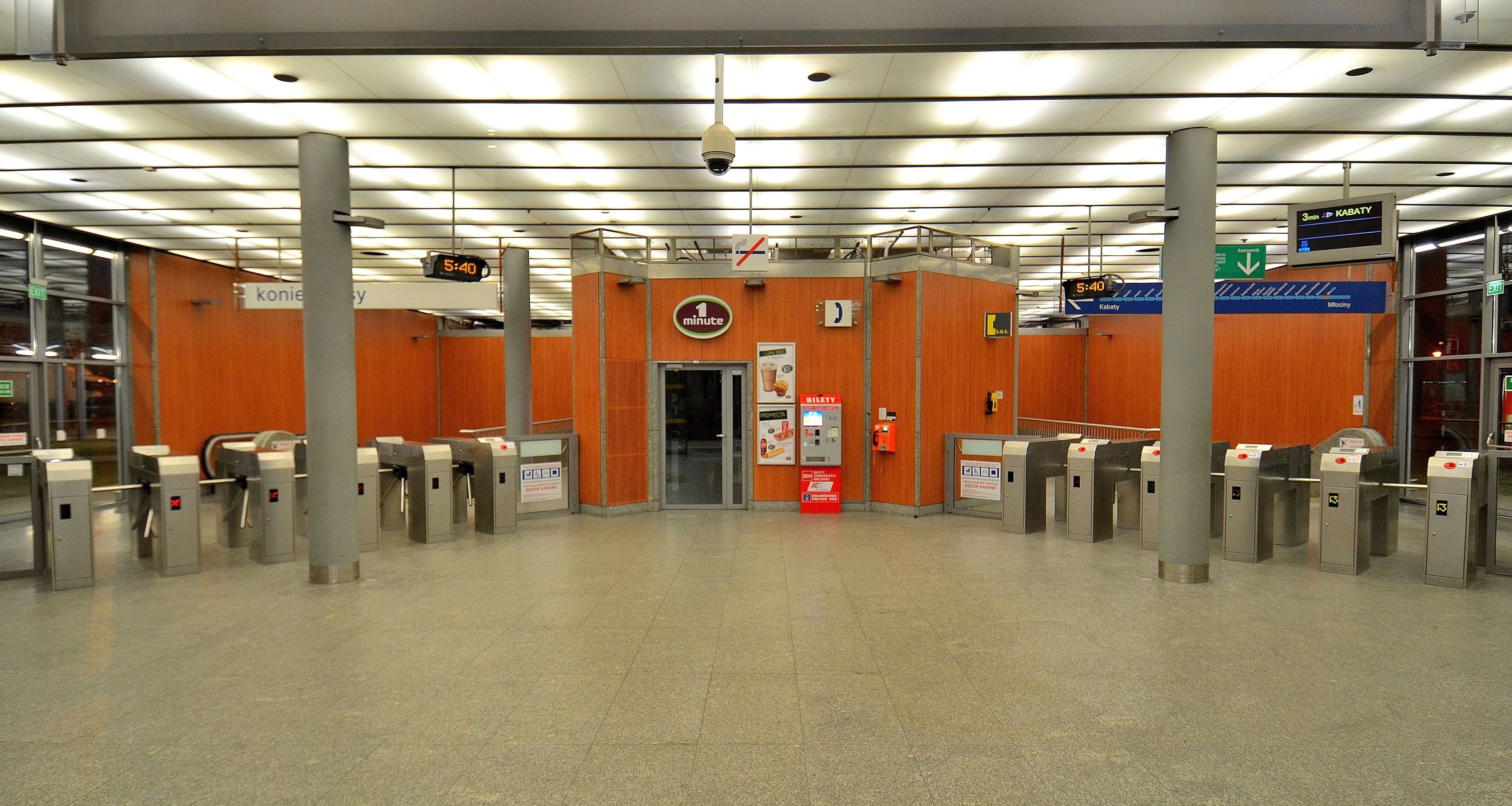 Northern entrance to Młociny metro station